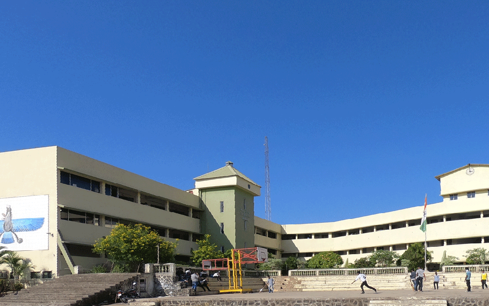 Photograph of on-campus dormitory complex at Rustomjee Academy for Global Careers